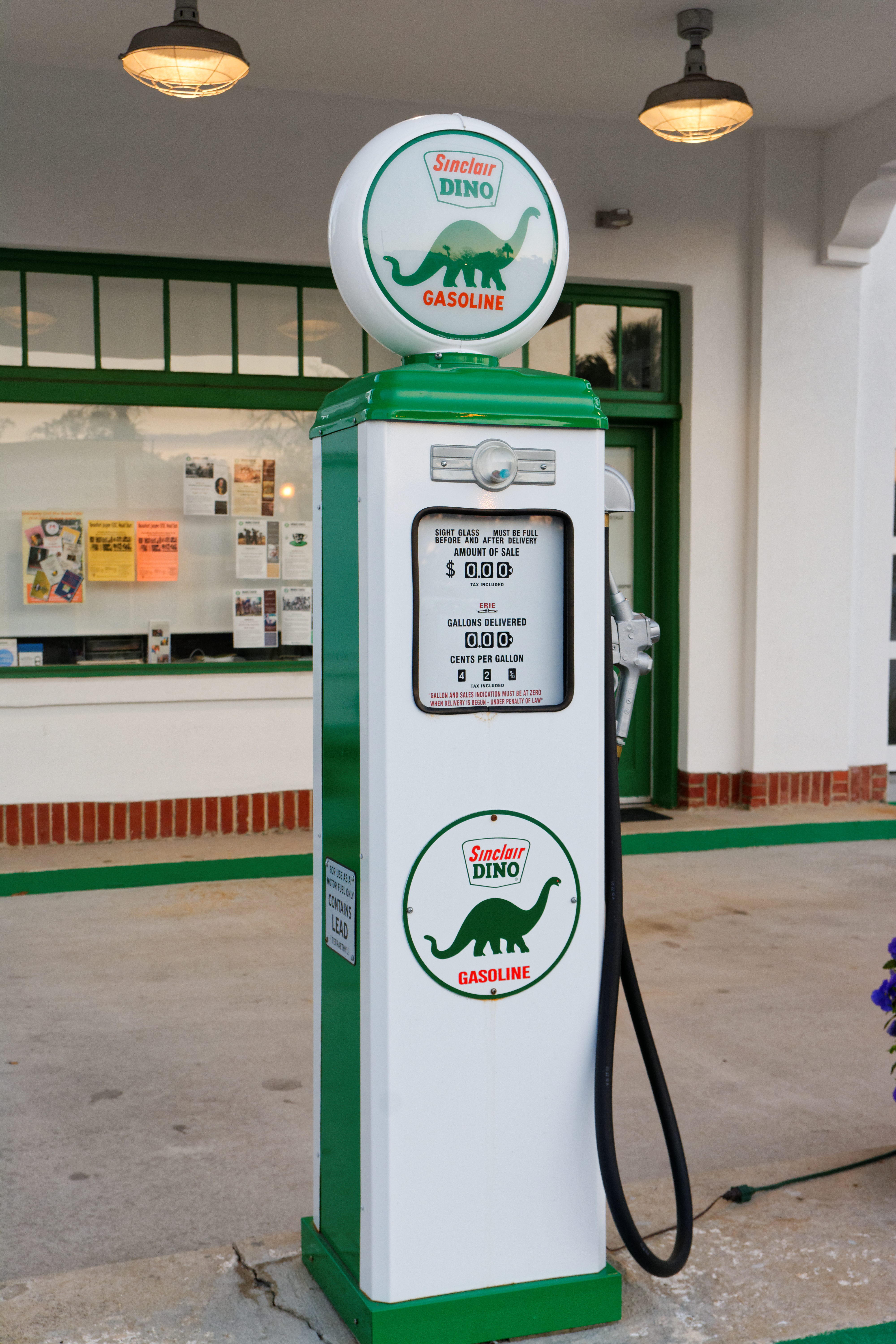 A restored Sinclair gas pump in Ridgeland, South Carolina, U.S. The restored station is on the National Register of Historic Places